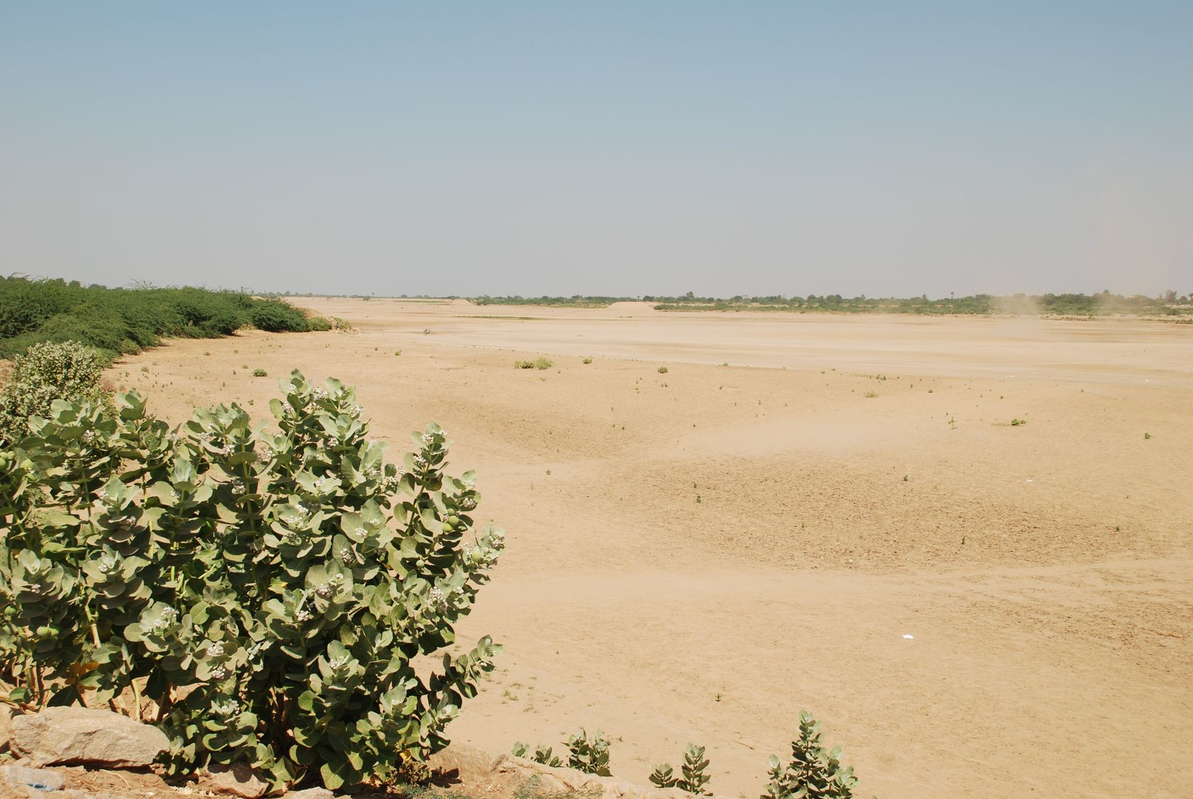 Kassala, Gash river in dry season